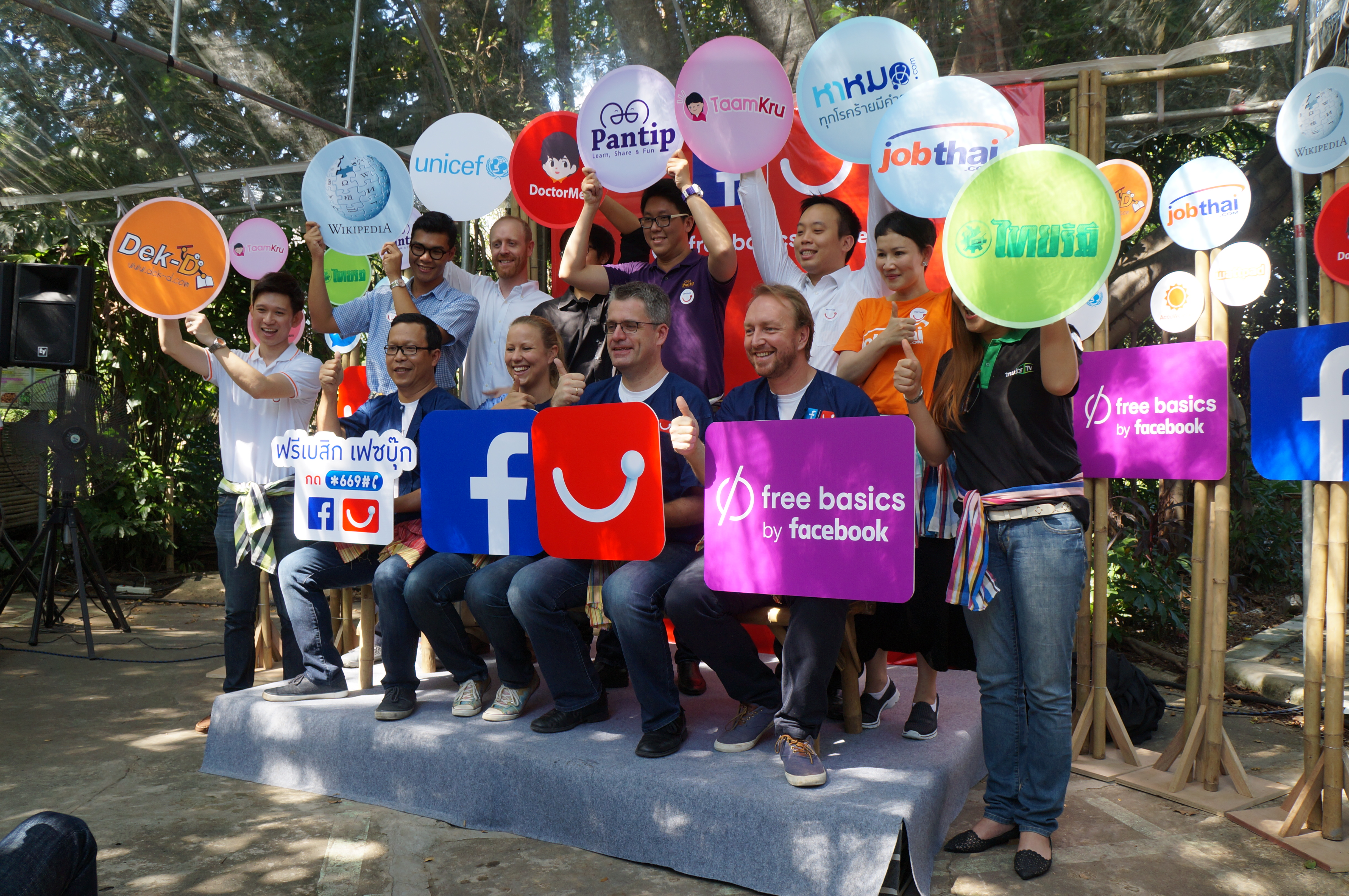 Free Basics by Facebook in Thailand with Dtac 2015